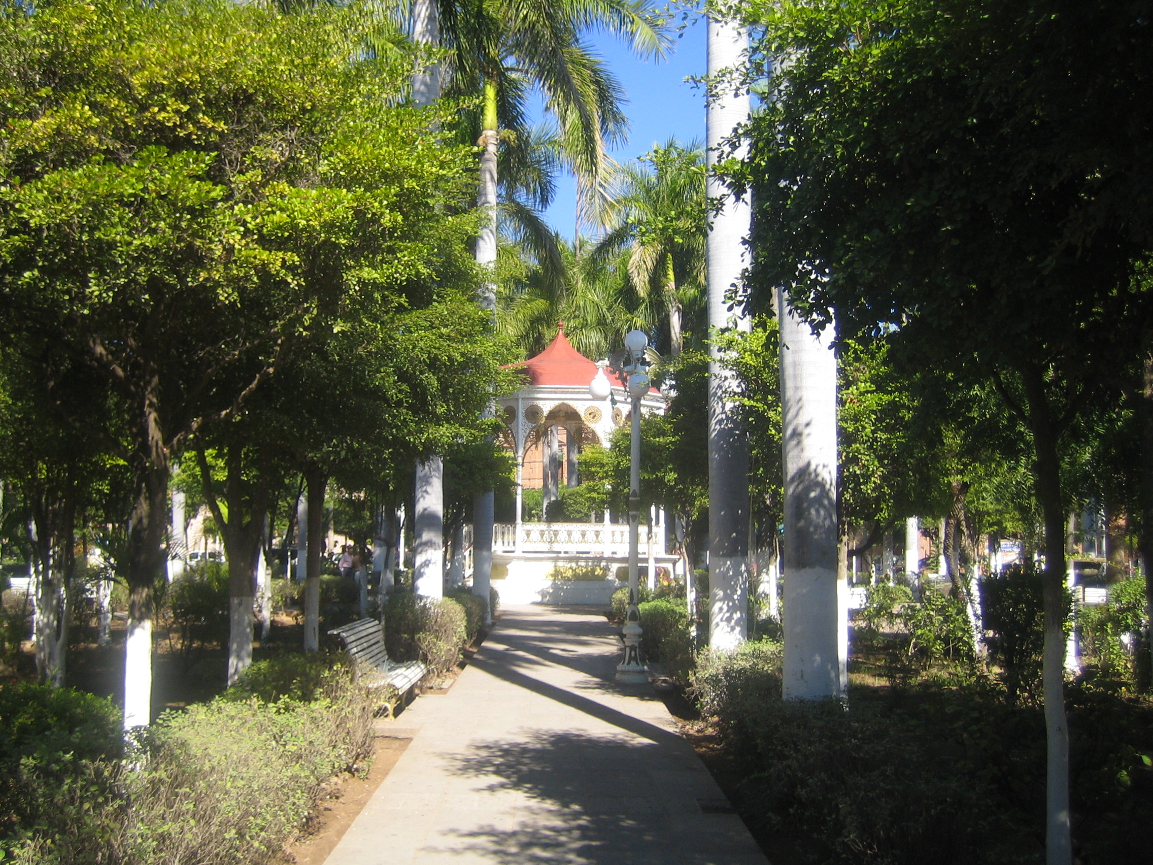 El Fuerte, Sinaloa, Plaza de Armas